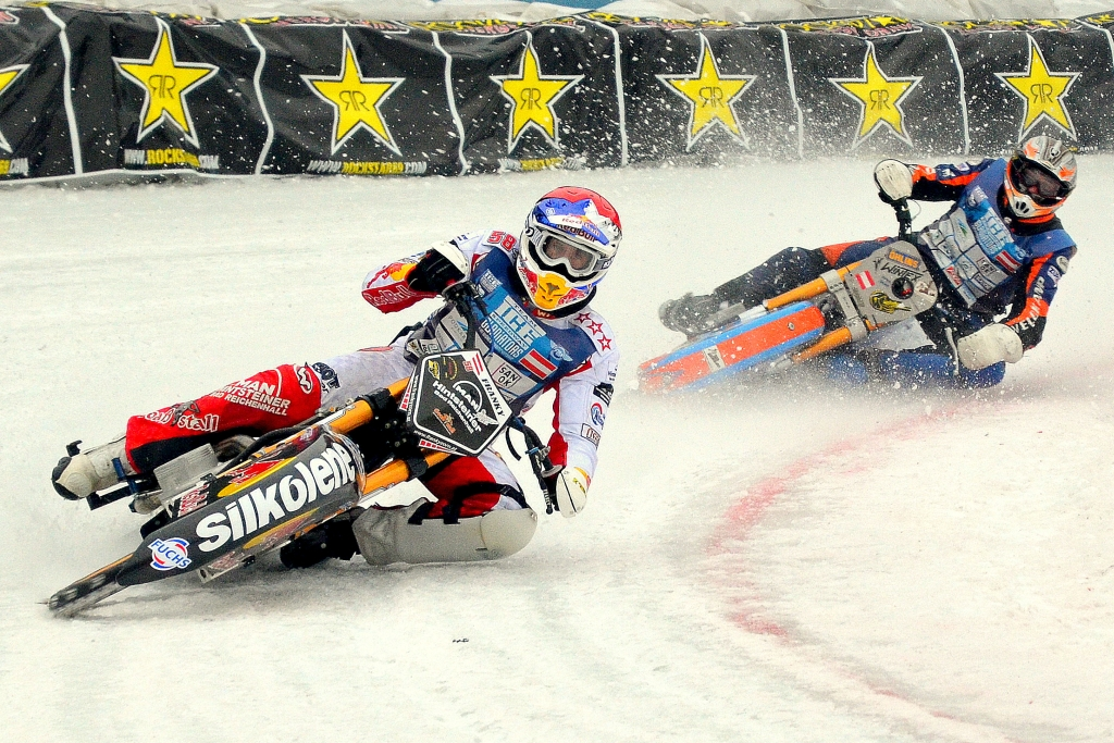 2013 FIM Team Ice Speedway Gladiators World Championship Final